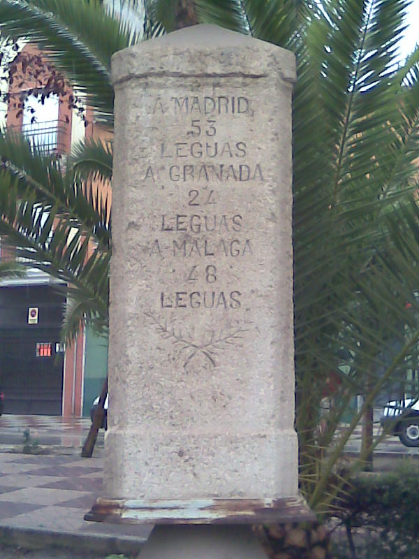 Leguario placed in the town of Bailén (Jaén, Spain)